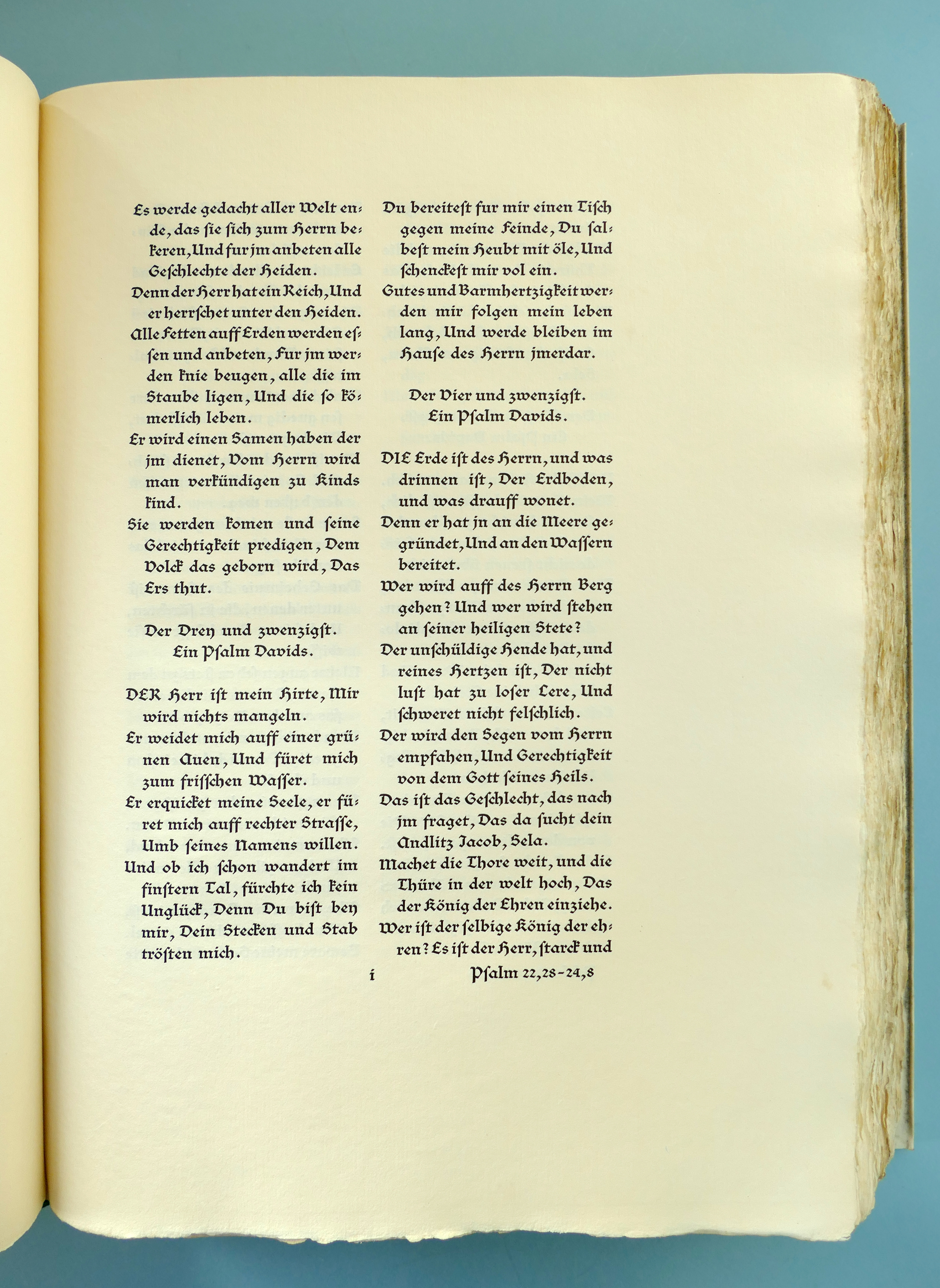 Bible, translated by Martin Luther, Psalter 23, Edition by Bremer Presse, Die Bibel in fünf Bänden, 1928, Copy 325 of 365